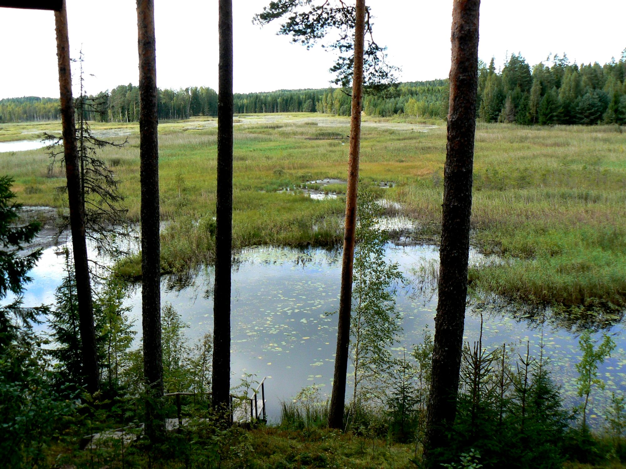 The Otitiik reservoir in Estonia